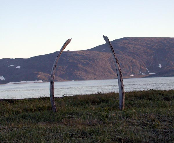 Ceremonial Whale Ribs, Whale Bone Alley, Yttygran Island